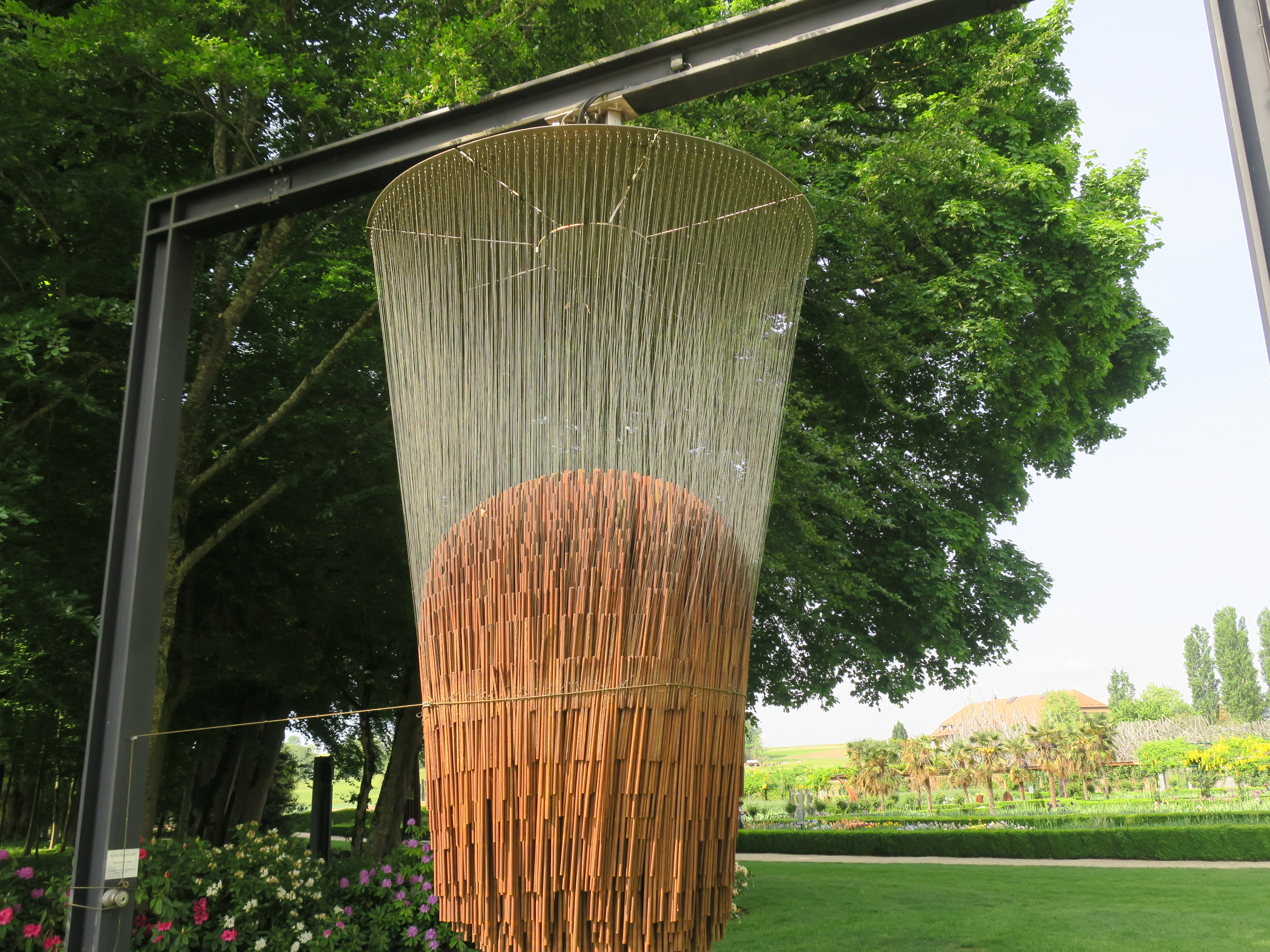 from the Swiss artist Etienne Krähenbühl, representing the beginning of the world. Sometimes it rings inside the iris Garden and move.